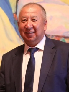 Kubatbek Boronov Кыргызча: Кубатбек Боронов